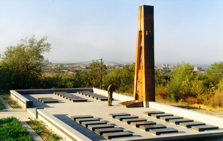 The Armenian Secret Army for the Liberation of Armenia memorial in Yerablur military cemetery